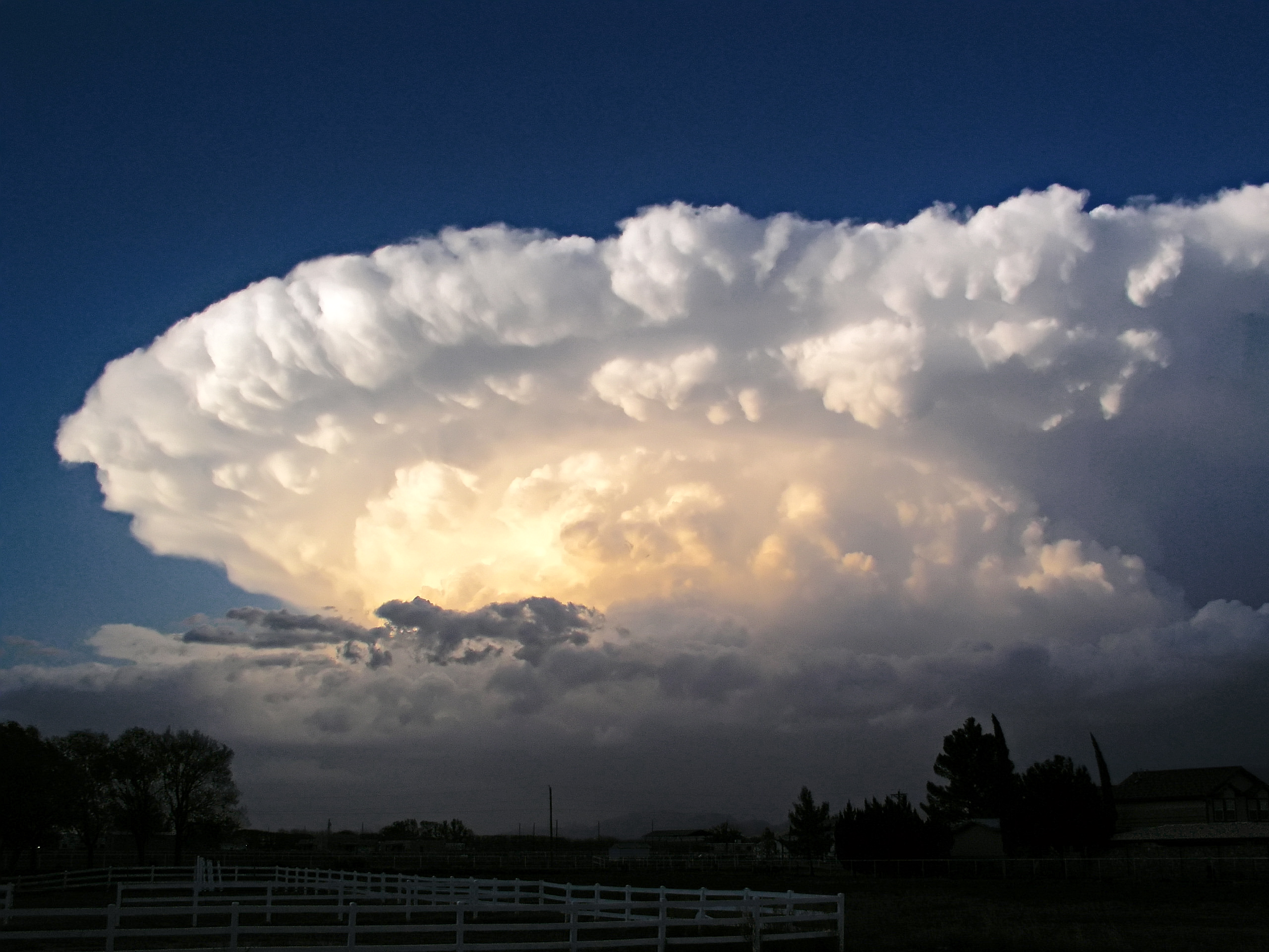 During the late afternoon and early evening of April 3, 2004, this supercell thunderstorm dropped 2 inch-diameter hail over Chaparral, N.M. causing widespread damage.